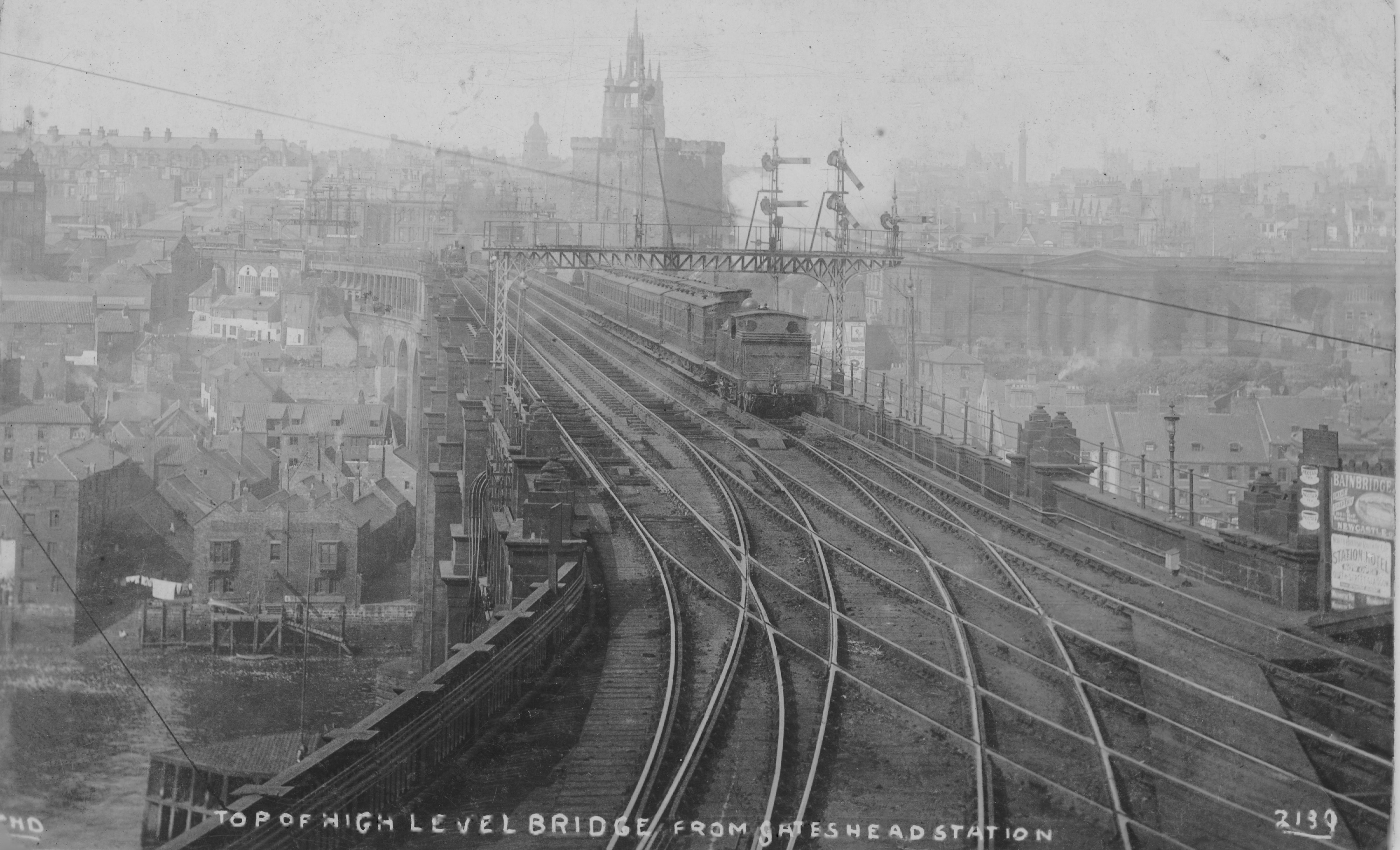 View of top of High Level Bridge from Gateshead Station from post card circa 1913, no publisher or printer identified